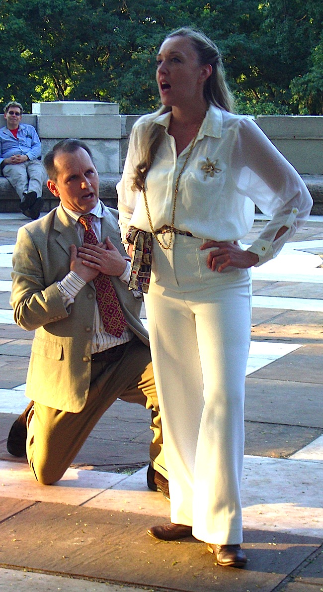 Winning her Heart